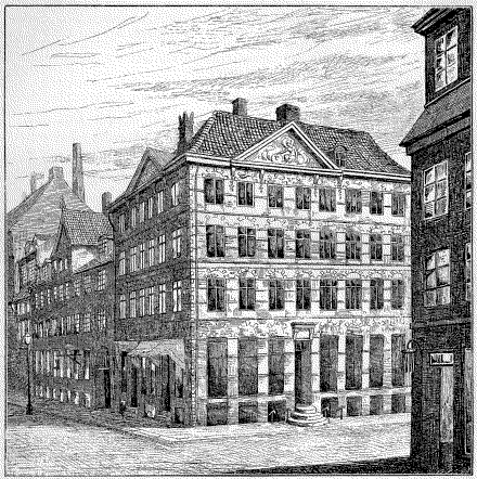 Den Rhodeske Gård at Strandgade in Christianshavn, Copenhagen, Denmark